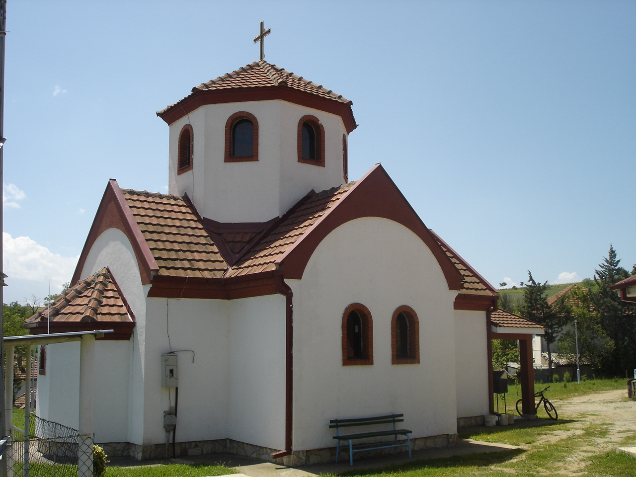 The church in the village of Bujkovci, near Skopje, Macedonia